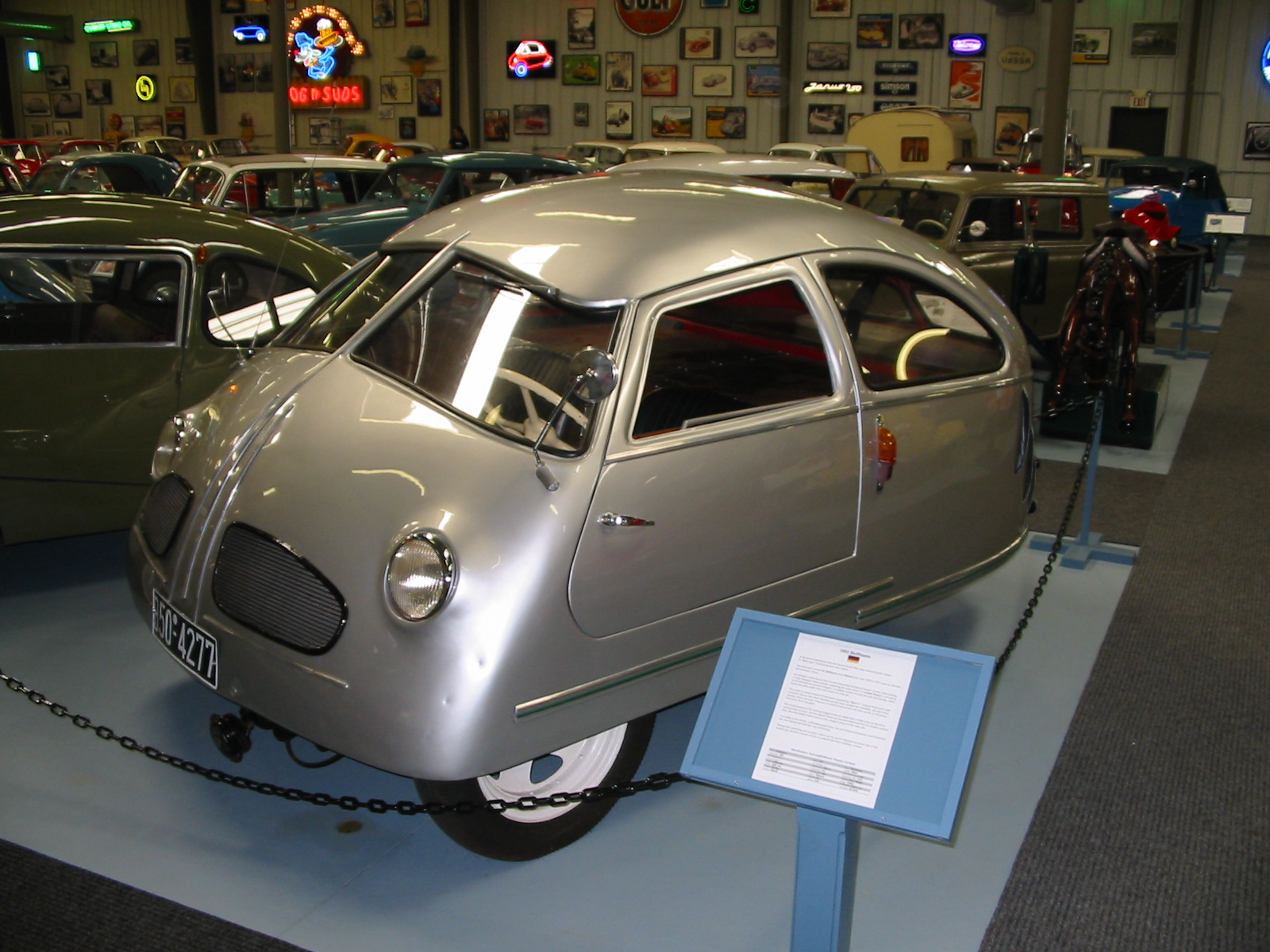 Yes, it is almost as wide as it is long. More here .Mushroom Mushroom!